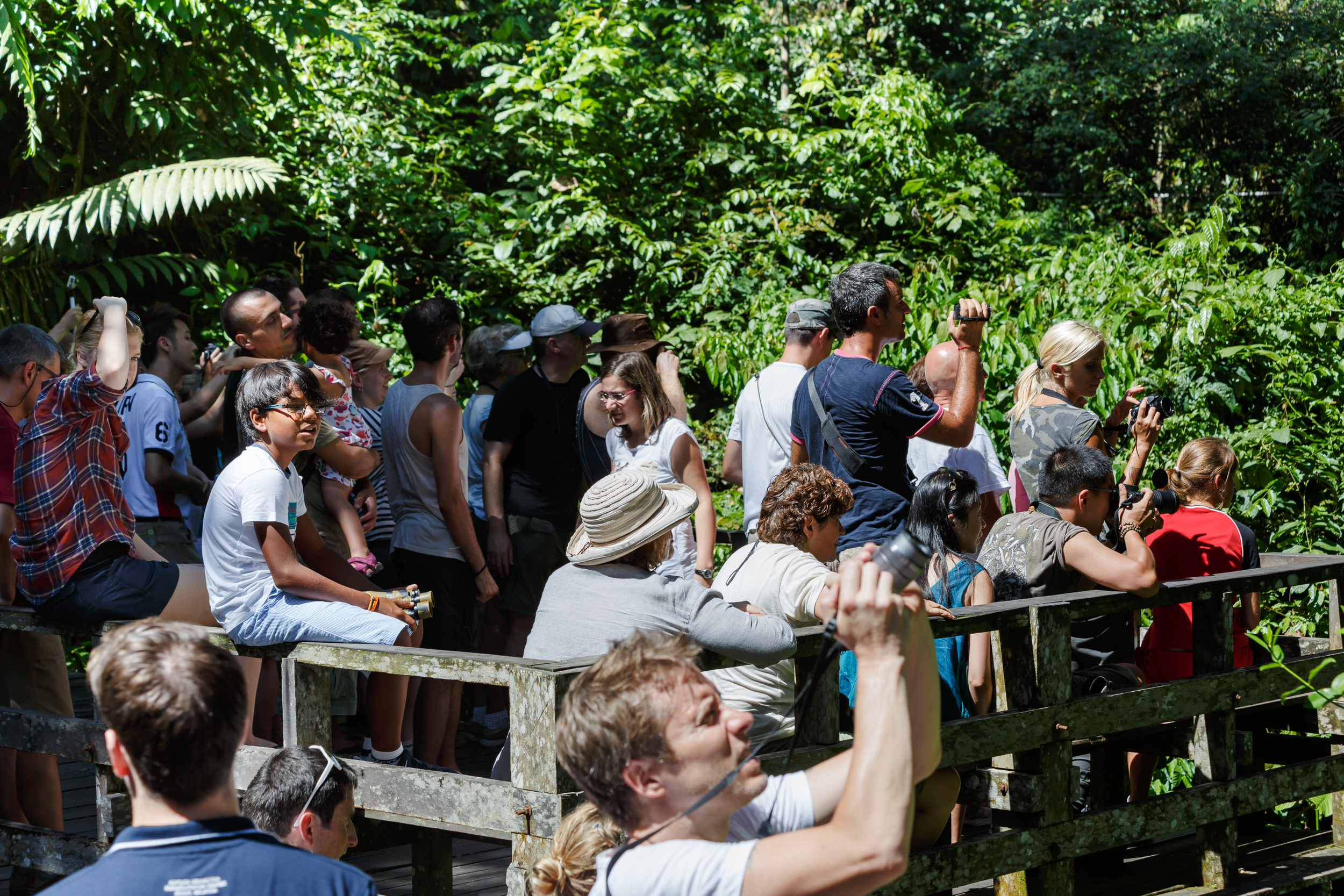 District Sandakan, Sabah: Visitors at Sepilok Orangutan Rehabilitation Centre